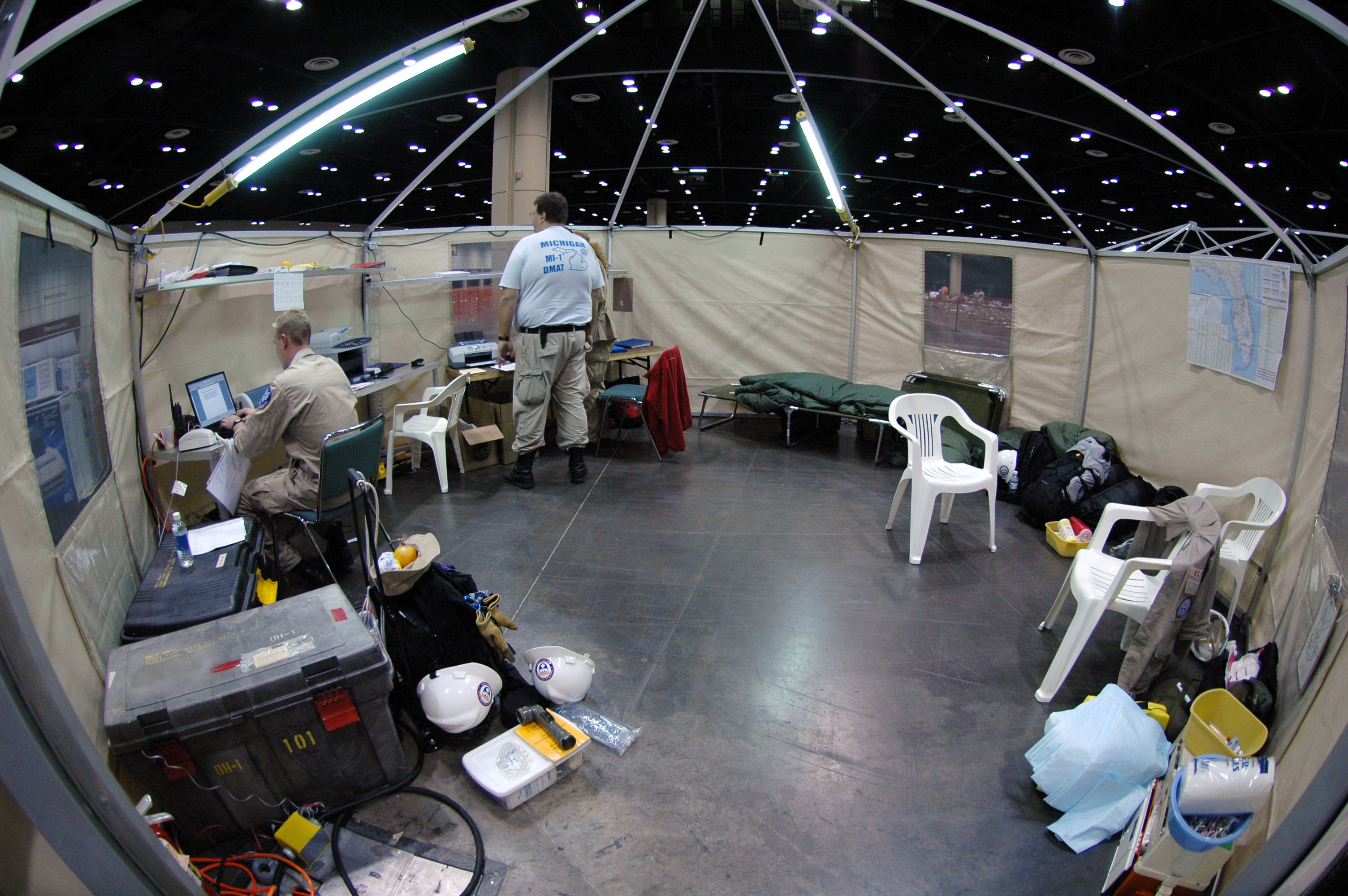 Orlando, FL, September 12, 2004-- A tent is set up as a medical aid station at the Orange County Convention Center. Disaster Medical Assistance Teams have set up an operation center for residents of Florida. FEMA Photo/Jocelyn Augustino